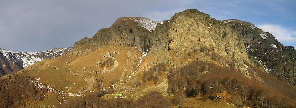 View from Ray Resthouse towards central Stara Planina, Bulgaria. The Raysko Praskalo waterfall can be seen.